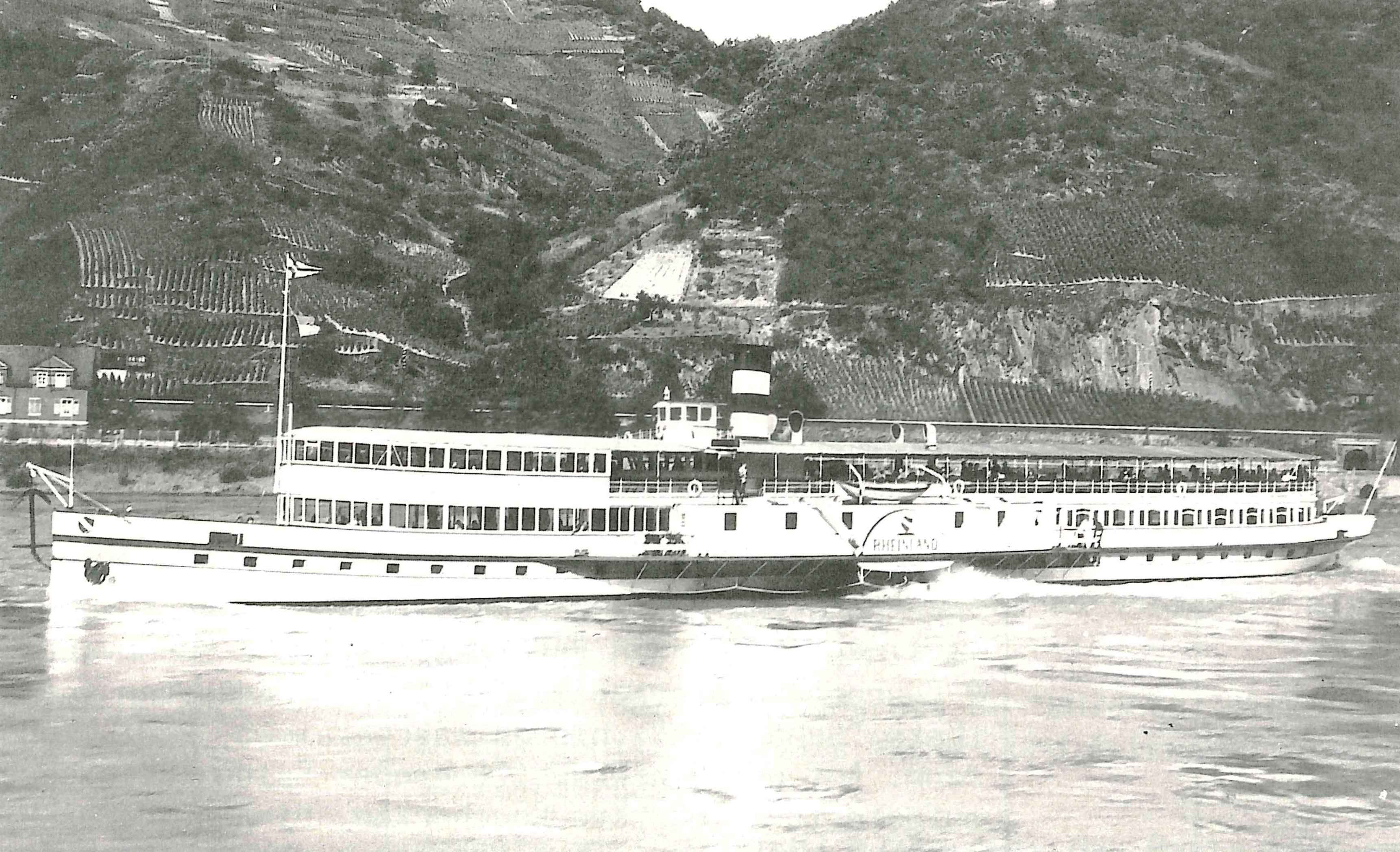 Paddle Steamer Rheinland